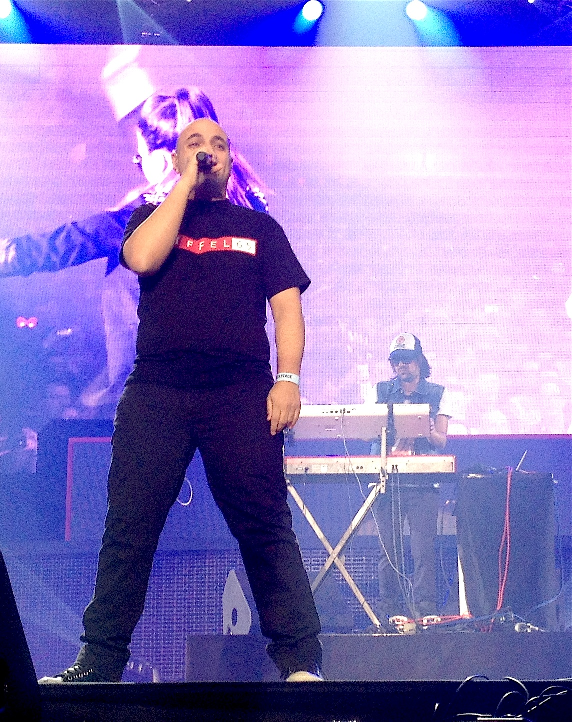 Italian dance band Eiffel 65 performing on stage in Hasselt, Belgium